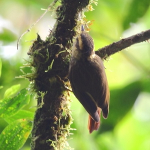 Sharp-billed Treehunter at São Luiz do Paraitinga - SP - Brazil